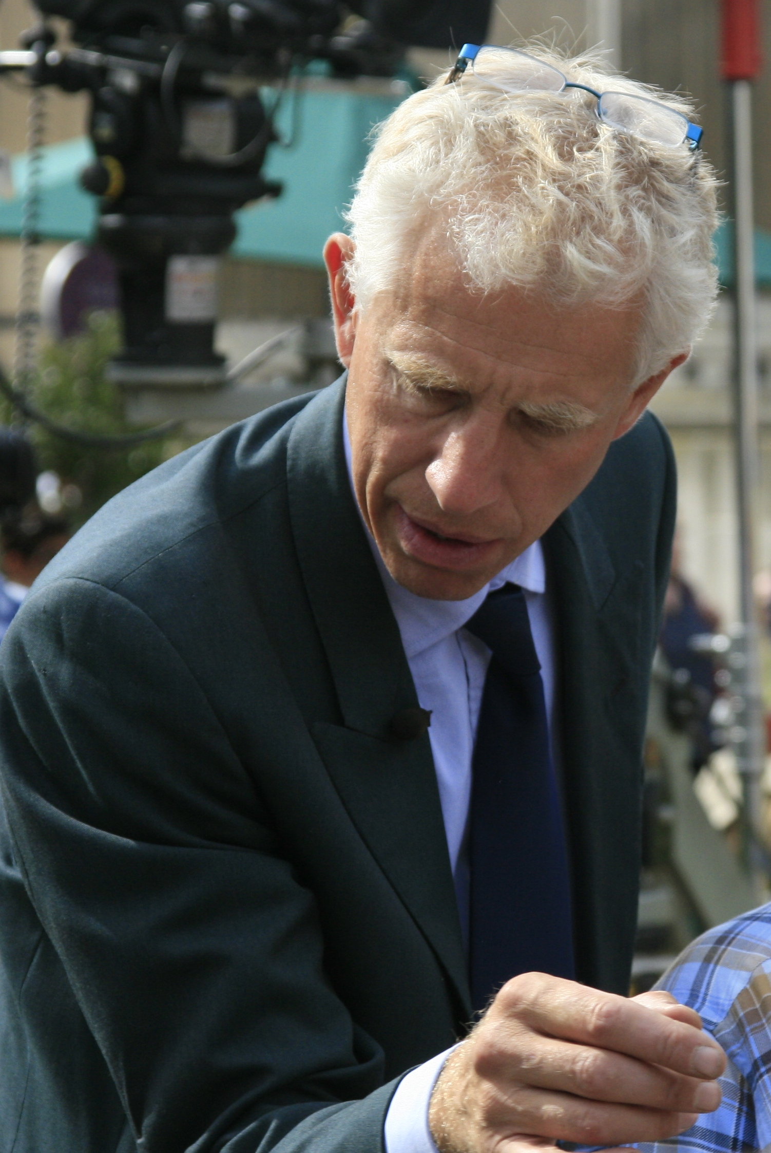 Rupert Maas points out the finer details